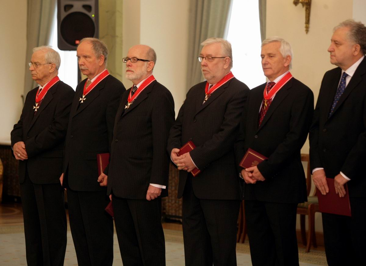 Judges and presidents od polish Constitution Tribunal